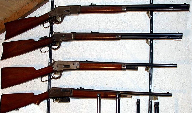 Winchester Rifles